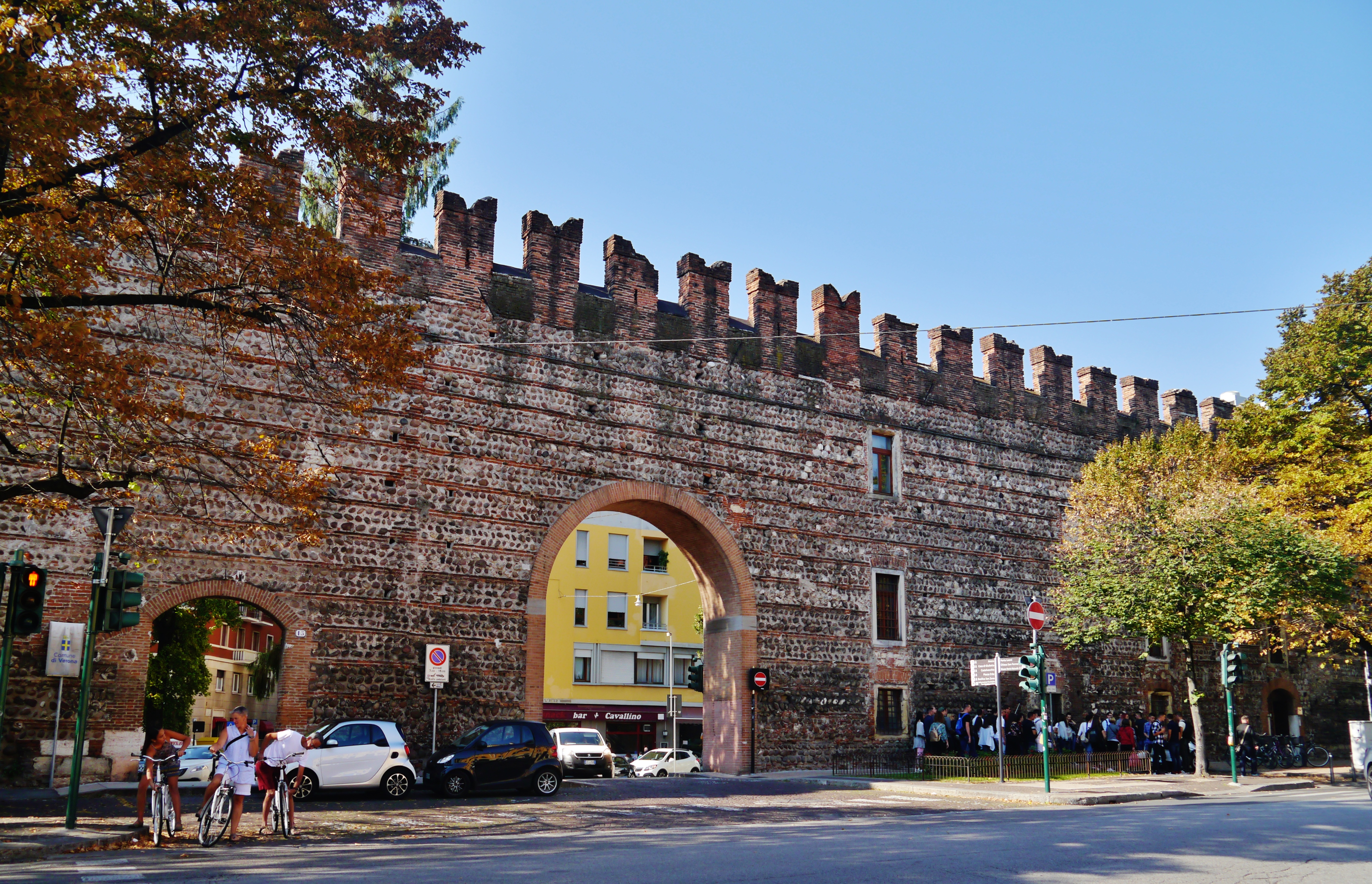 City Walls, Verona, Province of Verona, Region of Veneto, Italy